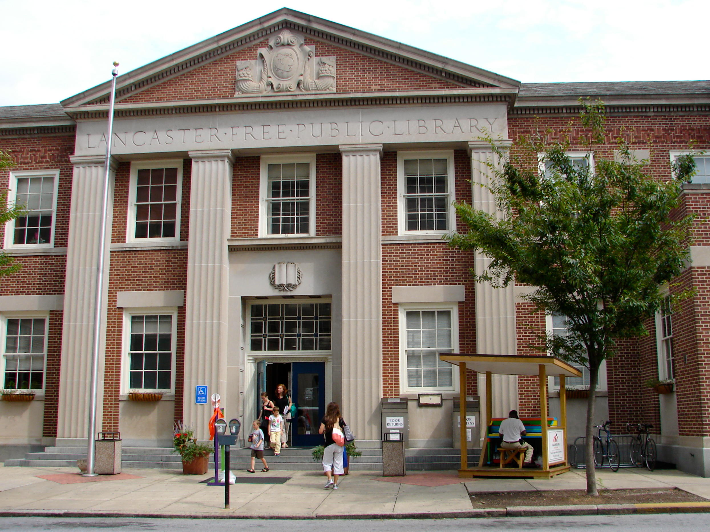 Lancaster City Historic District. Lancaster Library on Duke Street.